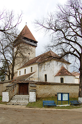 Lutheran church of Chirpăr, Transylvania